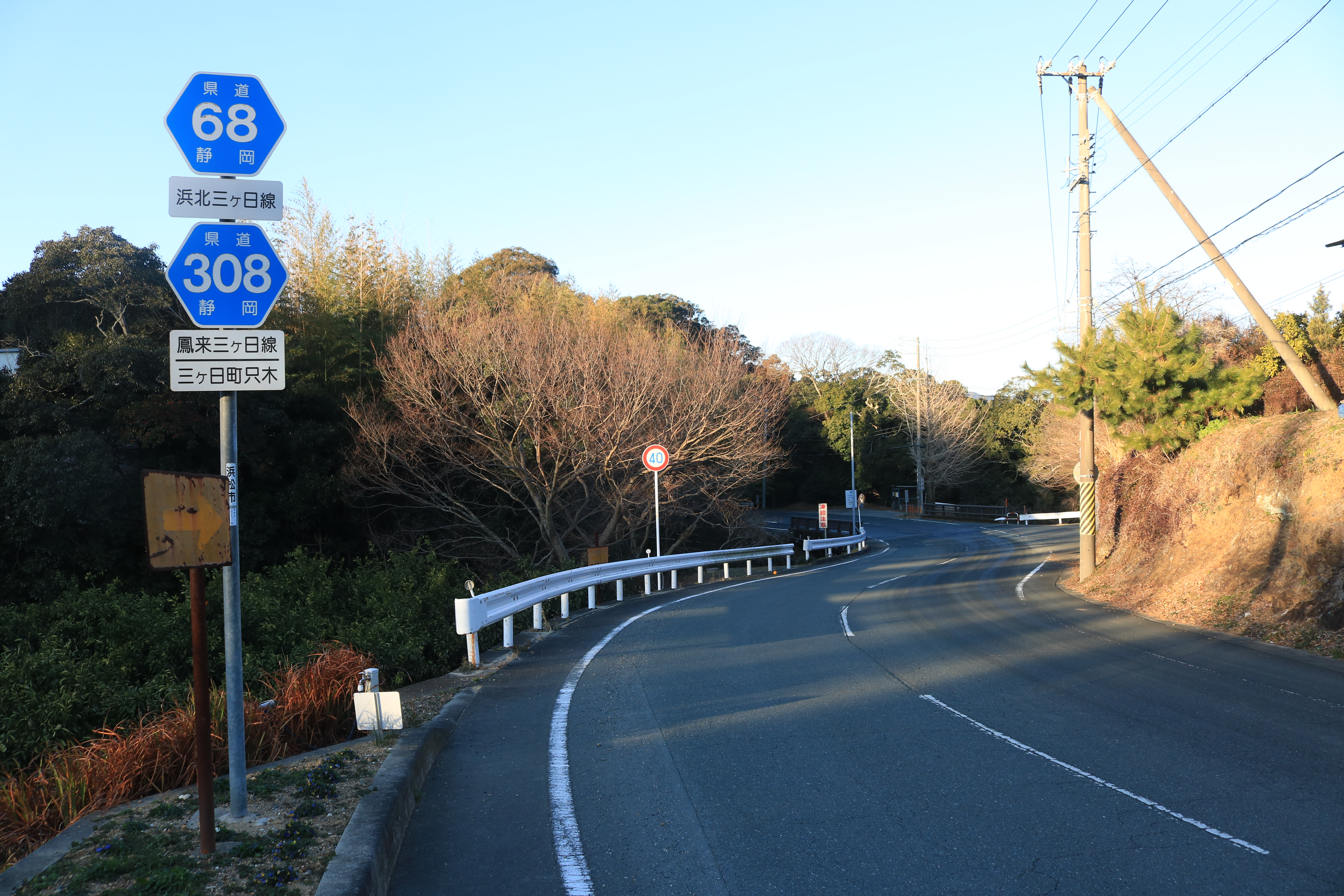 Shizuoka Prefectural Road Route 68 and Shizuoka Prefectural Road Route 308 in Tadaki, Mikkabicho, Kita-ku, Hamamatsu, Shizuoka Prefecture, Japan.